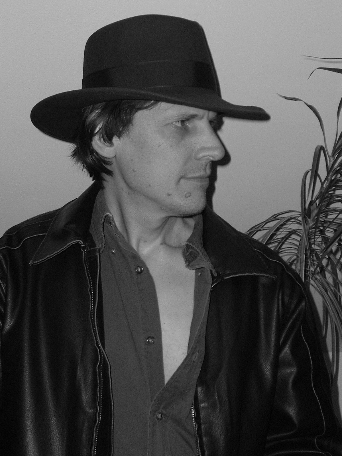 Andrew Ostrowski on set of Real Live Relic Hunter